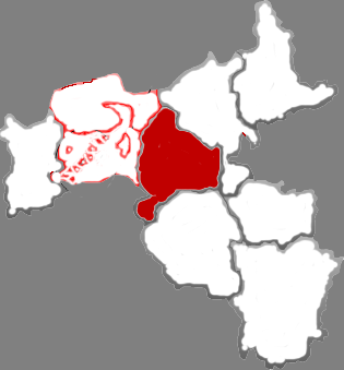 Location of Datong county in Datong City, China